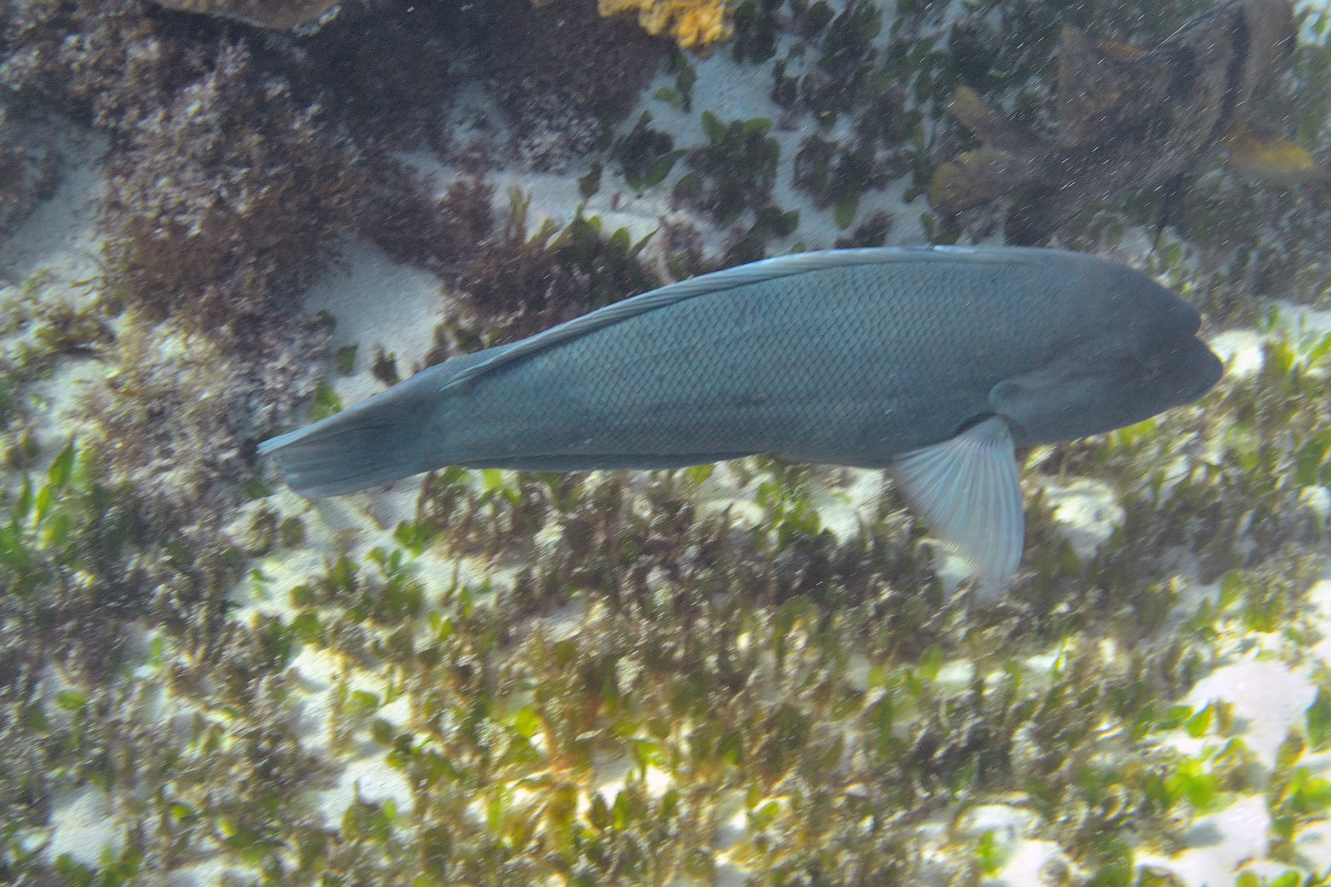 Photographed while snorkelling at Ned's Beach, Lord Howe Island, this fish is found only in the northern Tasman Sea around Lord Howe, Norfolk Islands, Middleton and Elizaberh Reefs and perhaps northern New South Wales. The vegetation visible on the sea floor is the marine flowering plant Halophila ovalis (Hydrocharitaceae). Image N15-0375, April 2015.